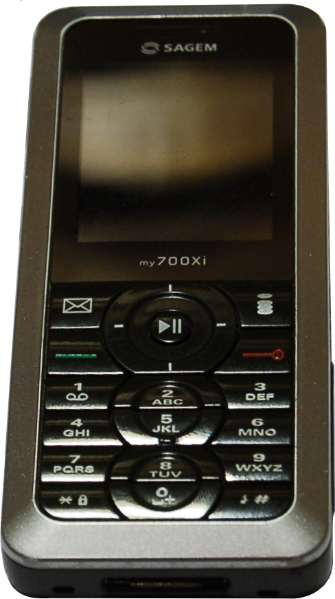 My700x - Sagem mobile